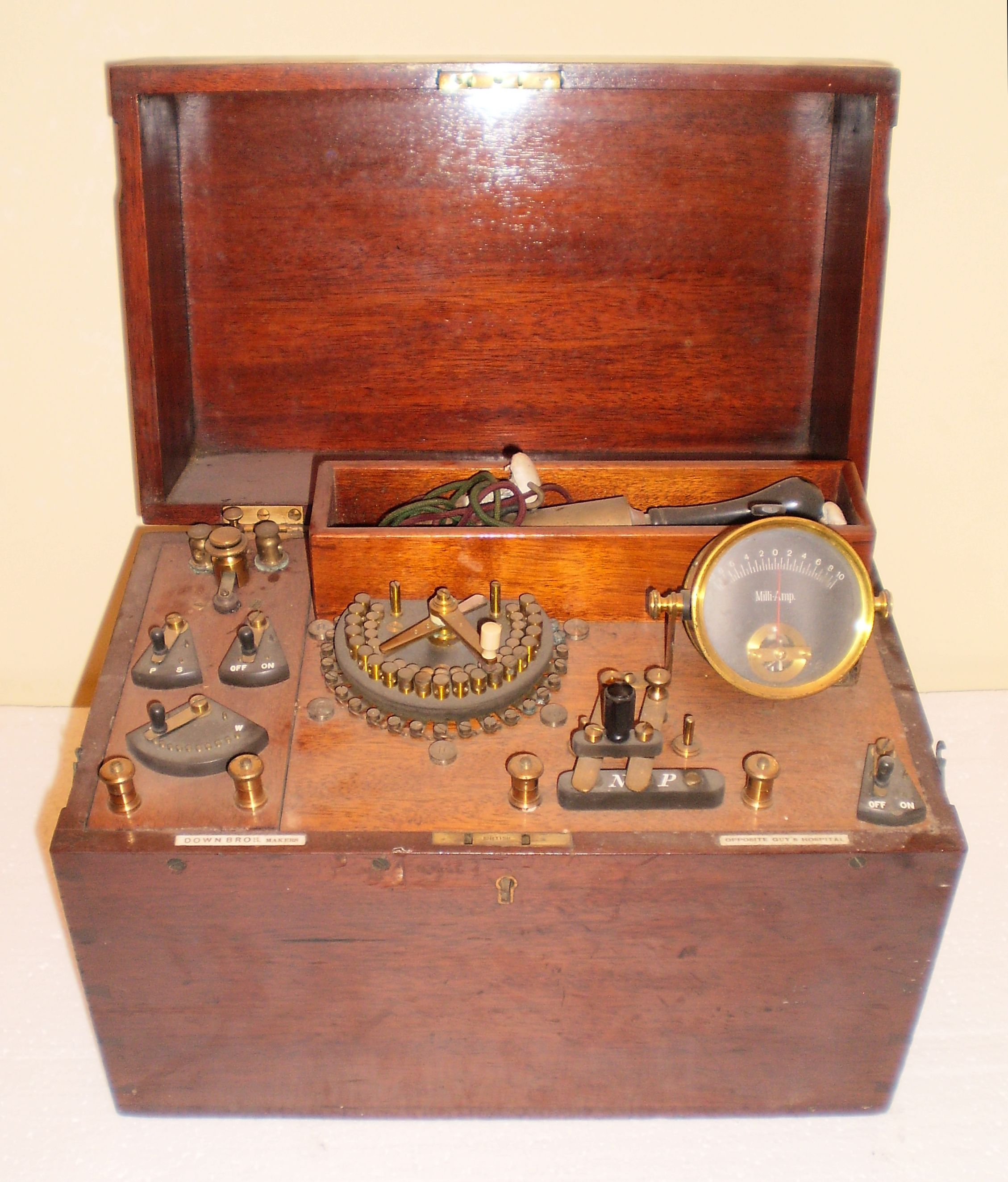 An electrotherapy apparatus used my my grand-father Dr. Antoine Olgiati during the first half of the XXth century. Bears two inscriptions: "Maker Down Bros" and "Opposite Guy's Hospital"